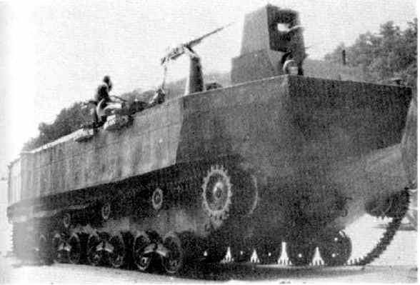 Type 4 Ka-Tsu, a Japanese amphibious landing craft of World War II of the Imperial Japanese Navy.